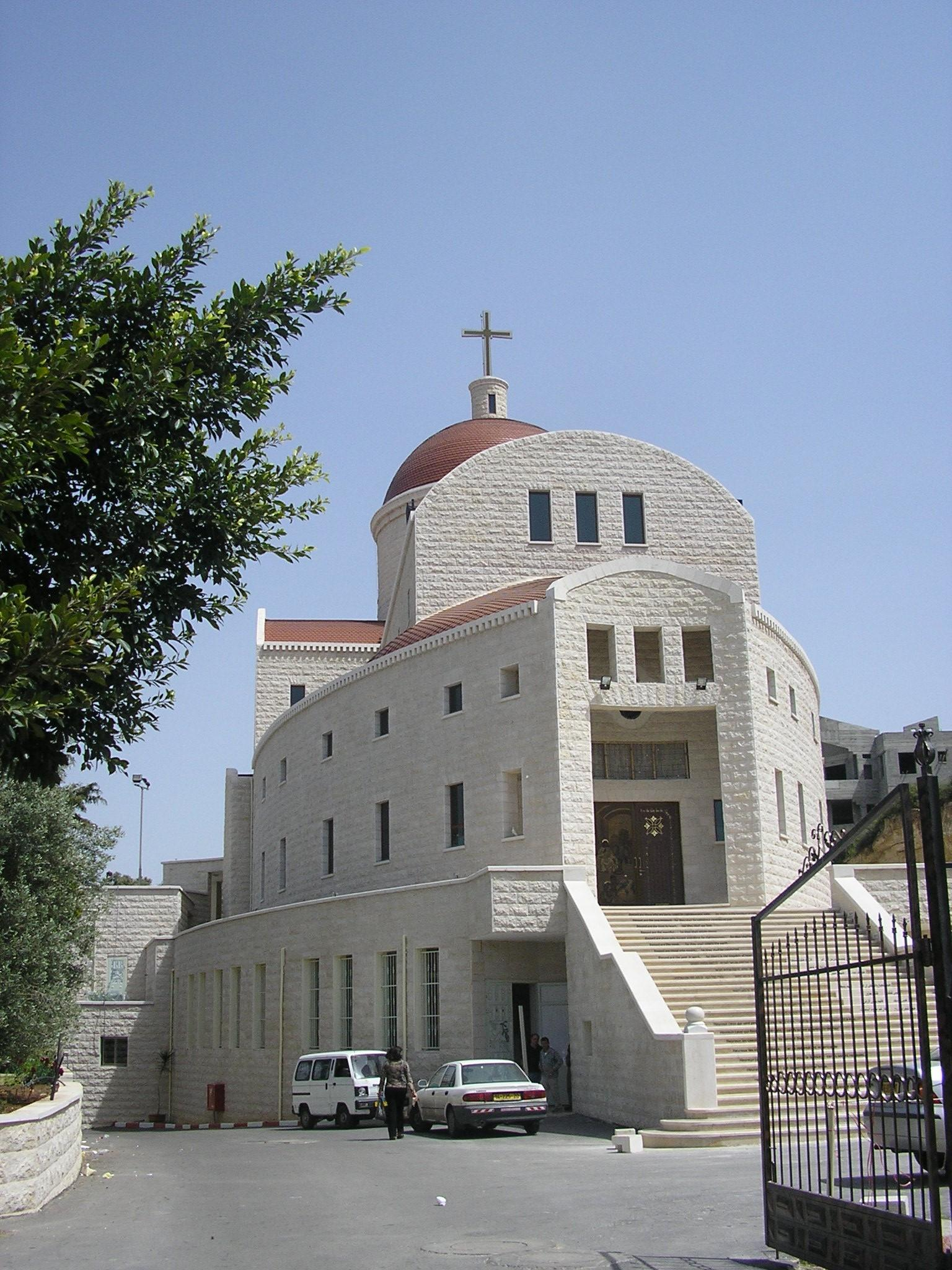 The new Melkite (Greek Catholic) Sermon on the Mount Church in I'billin, Israel.הכנסייה הקתולית החדשה באעבלין, ישראל